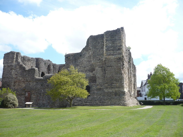 Canterbury castle Viewed from inside the city walls near Rheims Way. Castle Street can be seen on the right. The castle was largely built in the reign of Henry I and by the 13th century had become the county gaol. In the 19th century it was used by a gas company as a storage centre for gas, which explains why the street to the north of the ruins is called Gas Street. It is now owned by the local authority.